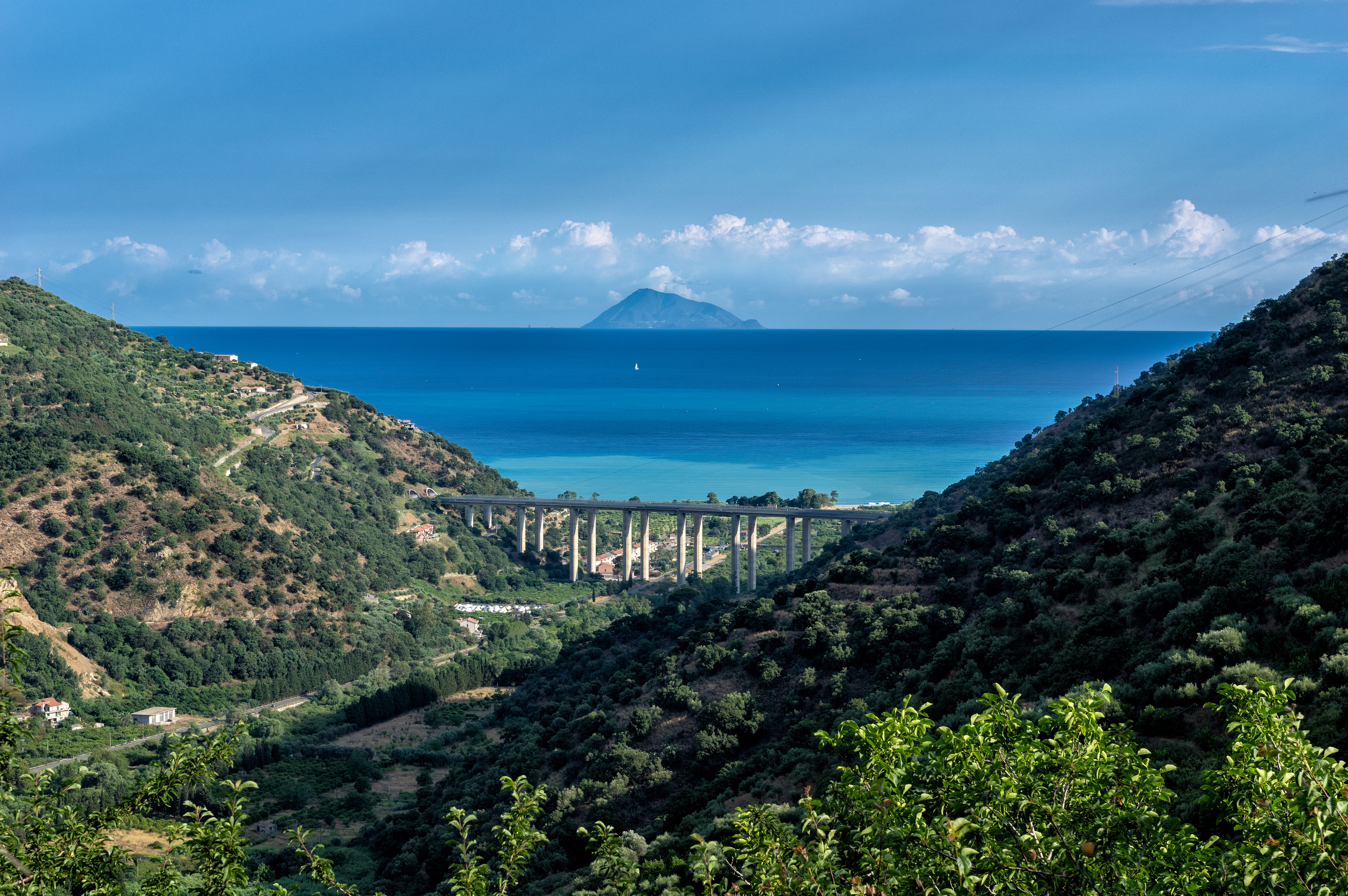 San Noto, Sicily